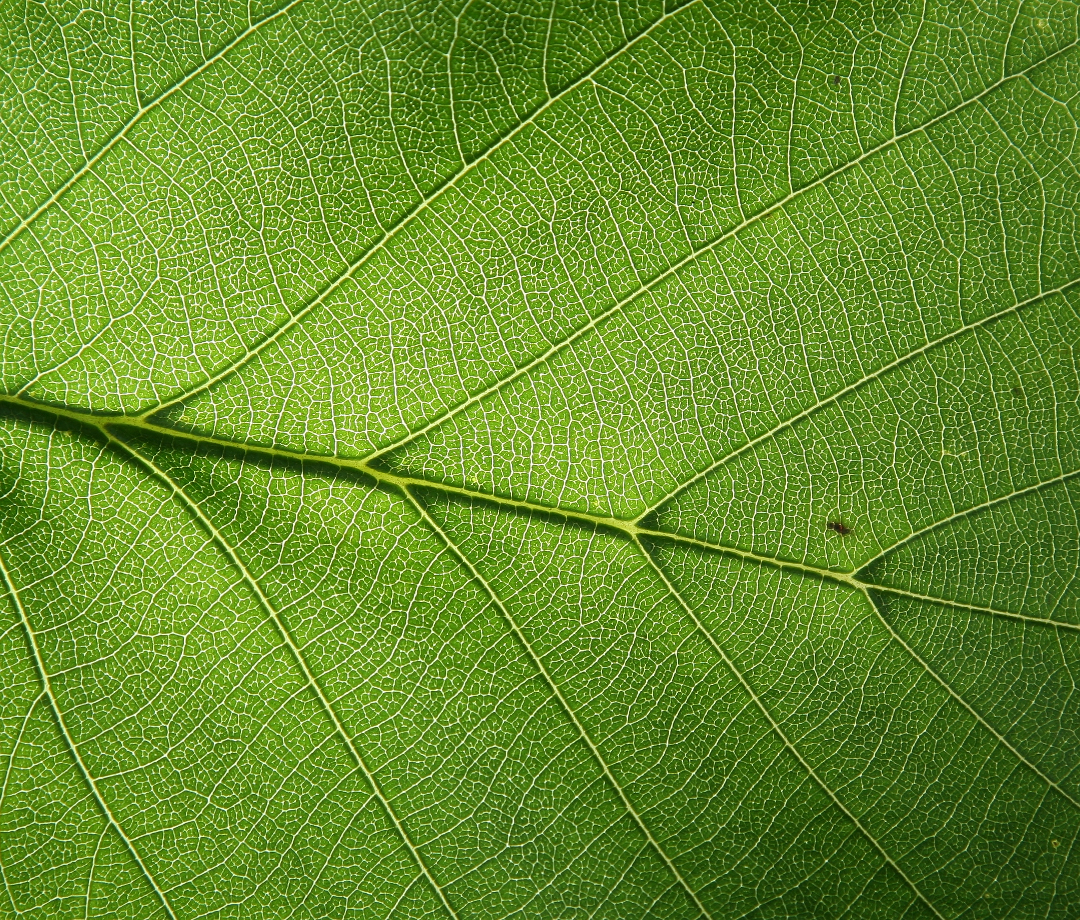 Detail view of a leaf in backlight